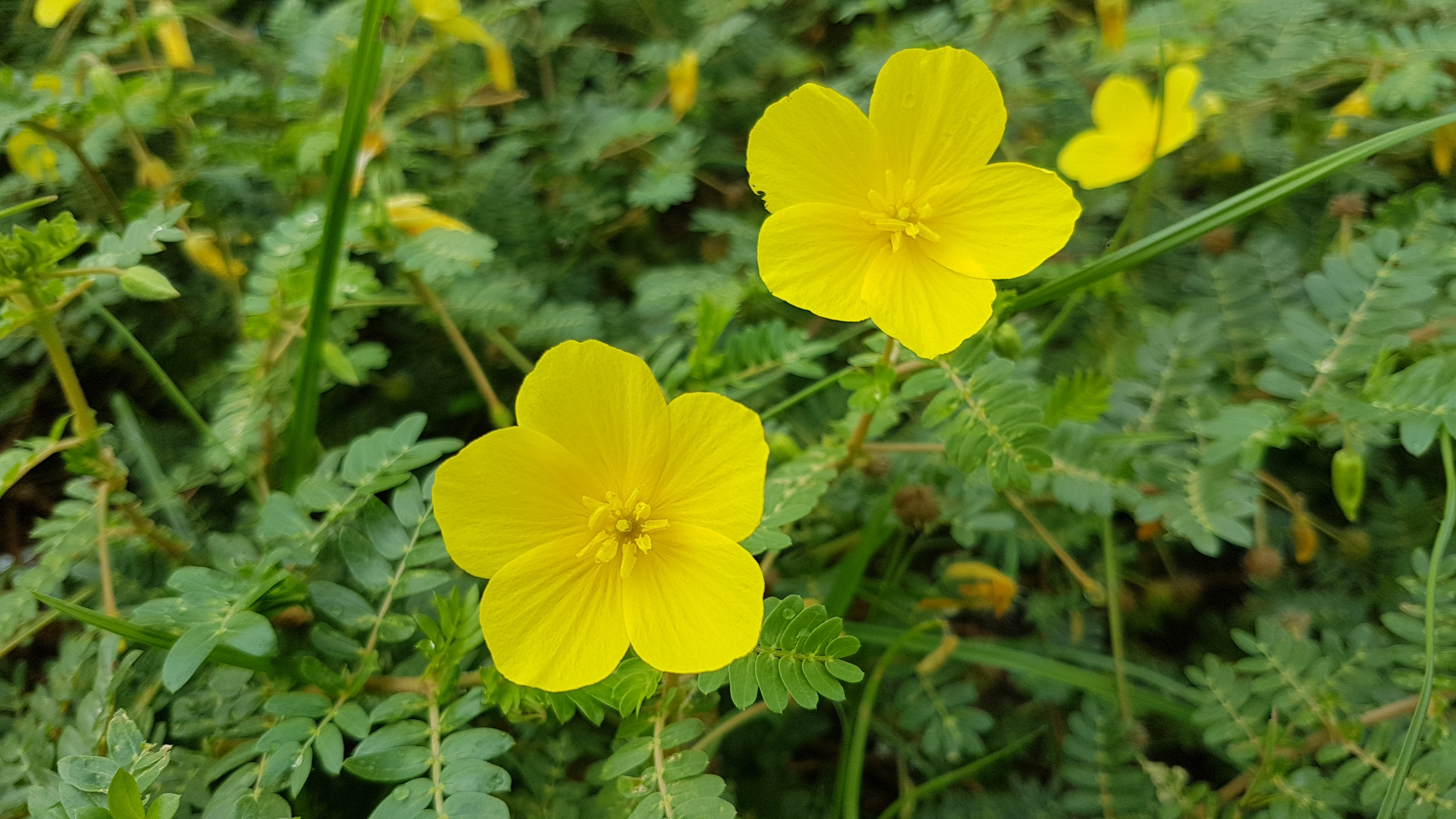 Tribulus terrestris growing on a beach (Philippines)